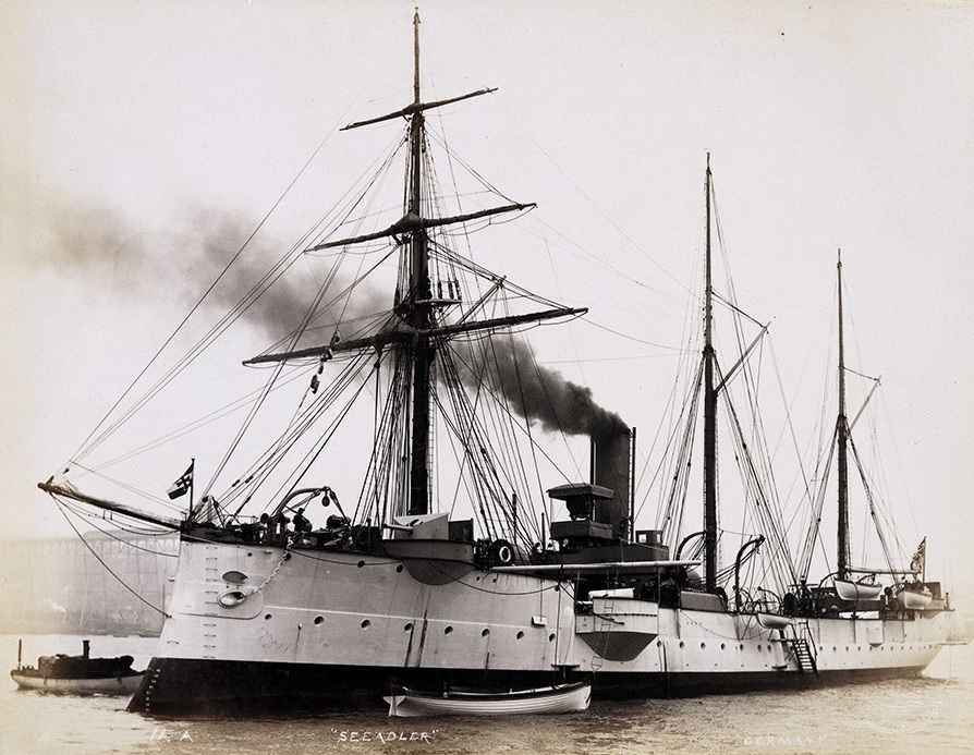 Title: 'Seeadler,' Germany Creator: Loeffler, 1864-1946 Date: April 27, 1893 Part Of: Columbian Naval Parade Place: New York Physical Description: 1 photographic print: albumen, part of 1 volume (48 albumen prints); 17 x 22 cm on 28 x 34 cm mount File: ag1982_0031_38_opt.jpg Rights: Please cite DeGolyer Library, Southern Methodist University when using this file. A high-resolution version of this file may be obtained for a fee. For details see the web page. For other information, . For more information, View the full series: naval parade/field/all/mode/all/conn/and/cosuppress/ View North America: Photographs, Manuscripts, and Imprints